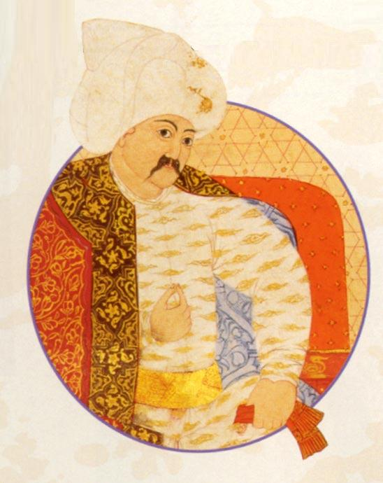 Sultan Selim I "the Grim". Ottoman miniature painting, detail of a family-tree: The Sultan's portrait. [exhibition held at the Topkapı Palace Museum in Istanbul, 6.6.-6.9.2000]. Topkapı Sarayı Müzesi, Istanbul